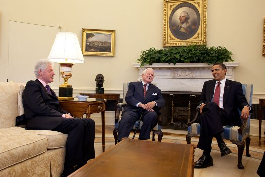 President Barack Obama meets with Senator Kennedy and former President Clinton to discuss national service.